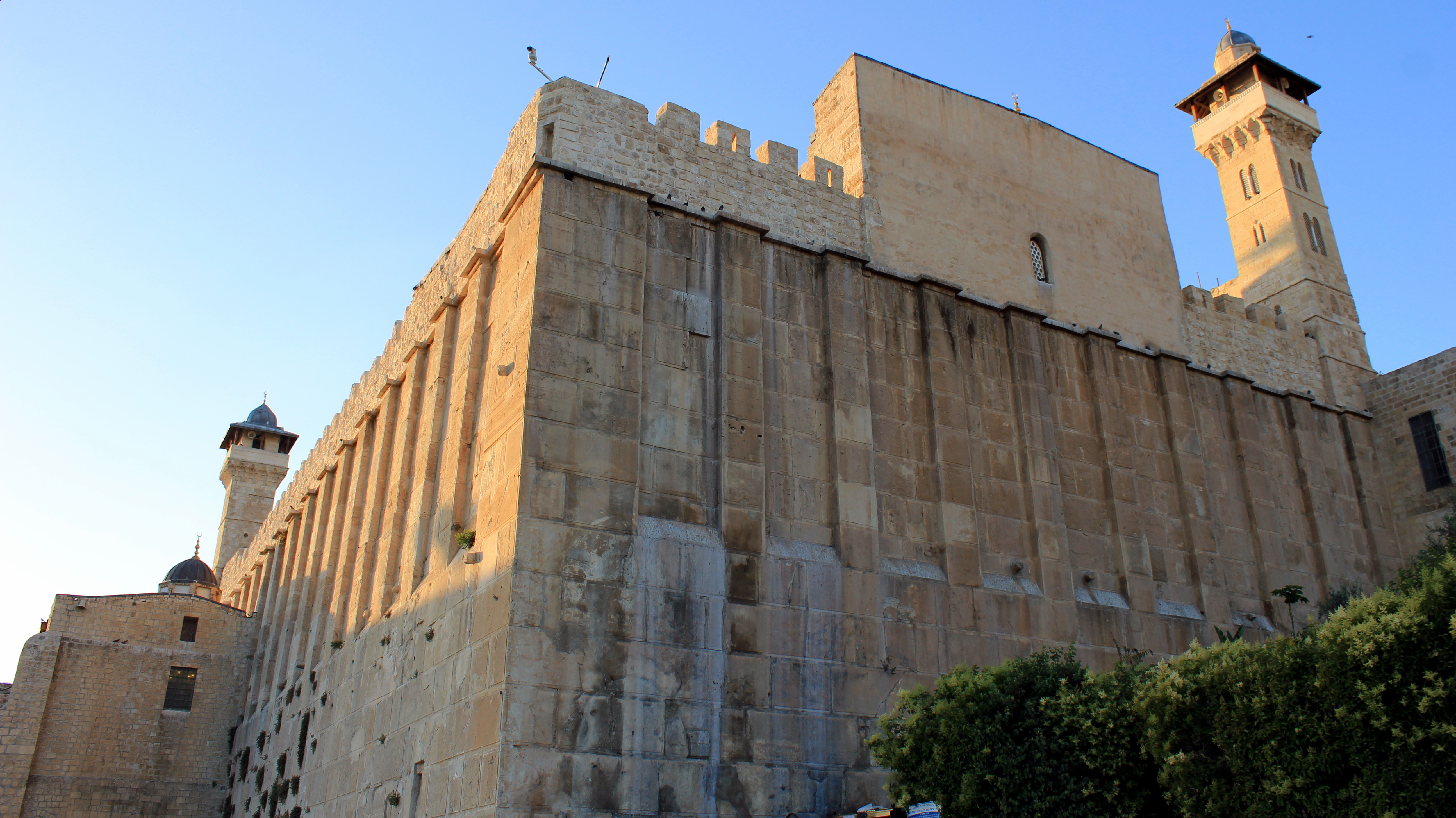 Israel Cave of the Patriarchs